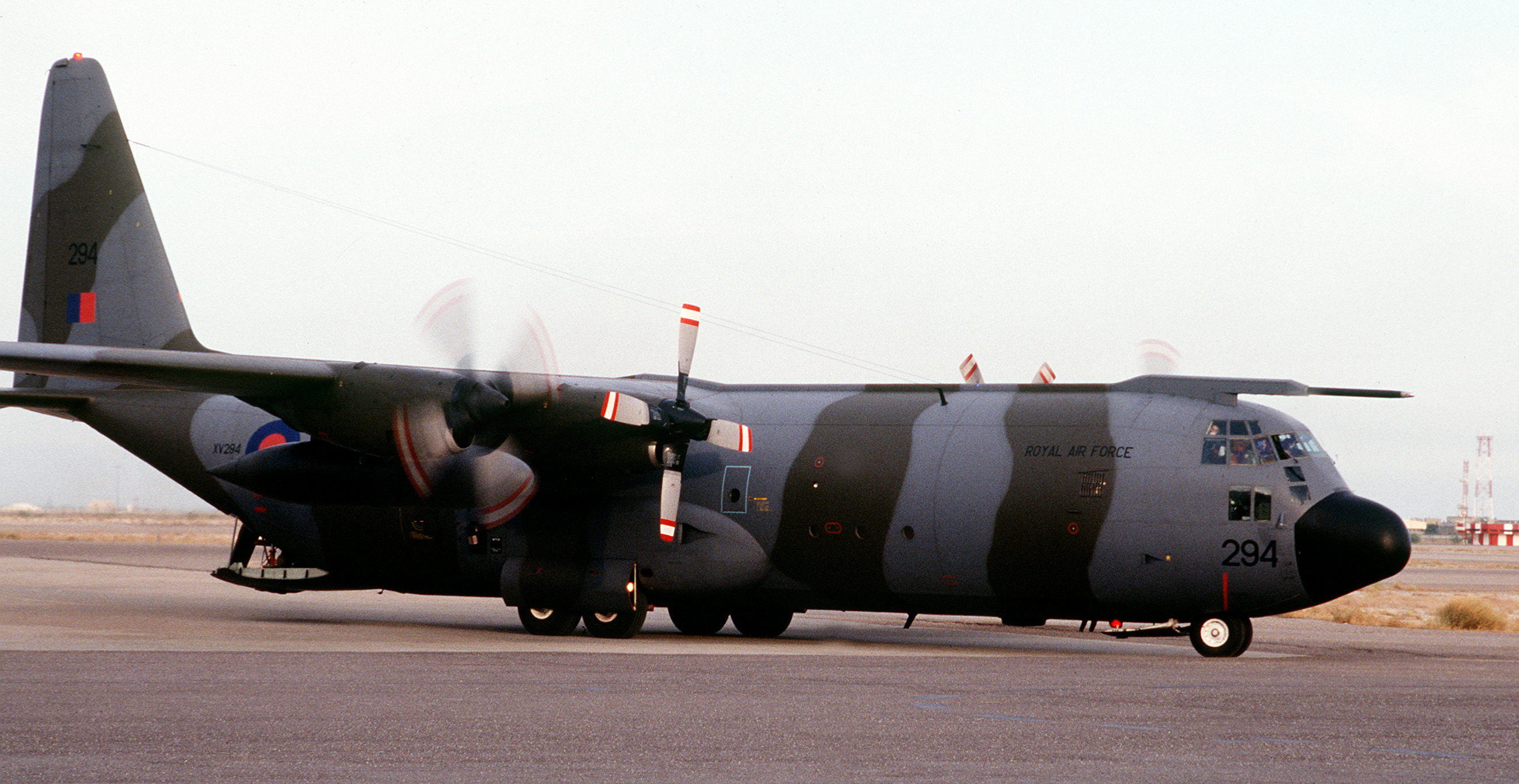 A right side view of a British C-130 from the Royal Air Force (RAF) lands at Kuwait International Airport. The aircraft is bringing passengers and equipment for their troops stationed in various parts of Kuwait. The British troops joined the United States forces in response to Saddam Hussein's advancement to the Kuwaiti border. Operation / Series: Vigilant Warrior.